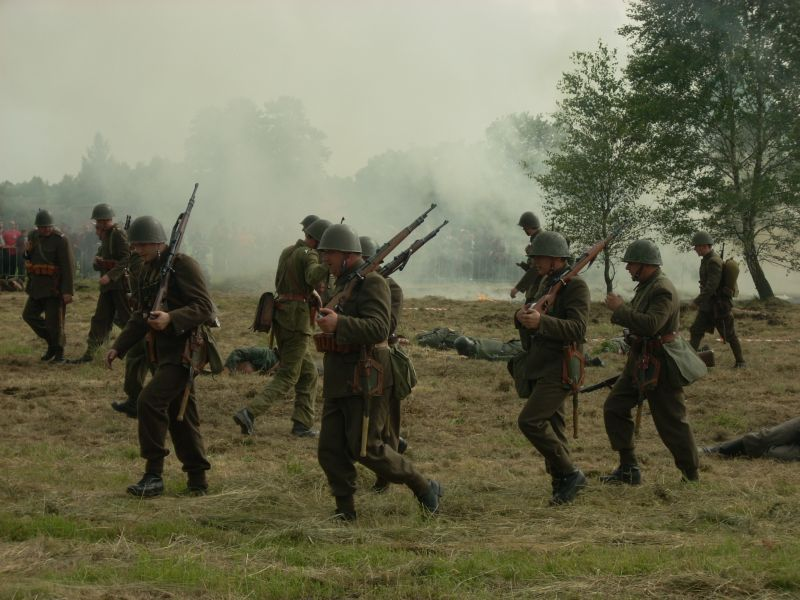 Historical reconstruction of the battle of Wyry